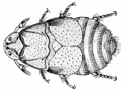 Platypsyllus castoris